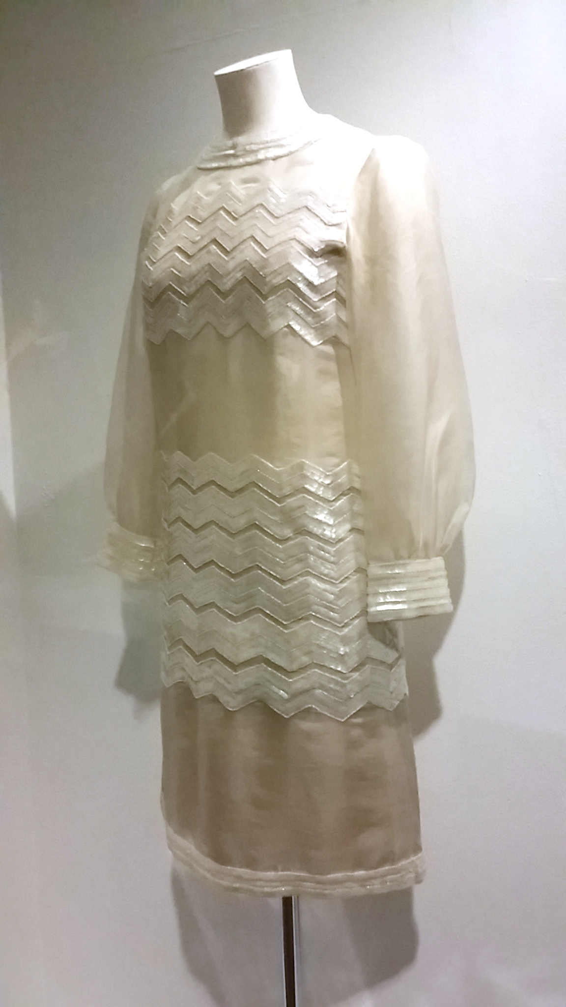 Sheer white gauze cocktail dress with zig zag stripes of sequin and bead embroidery. By Yves Saint Laurent, 1965.